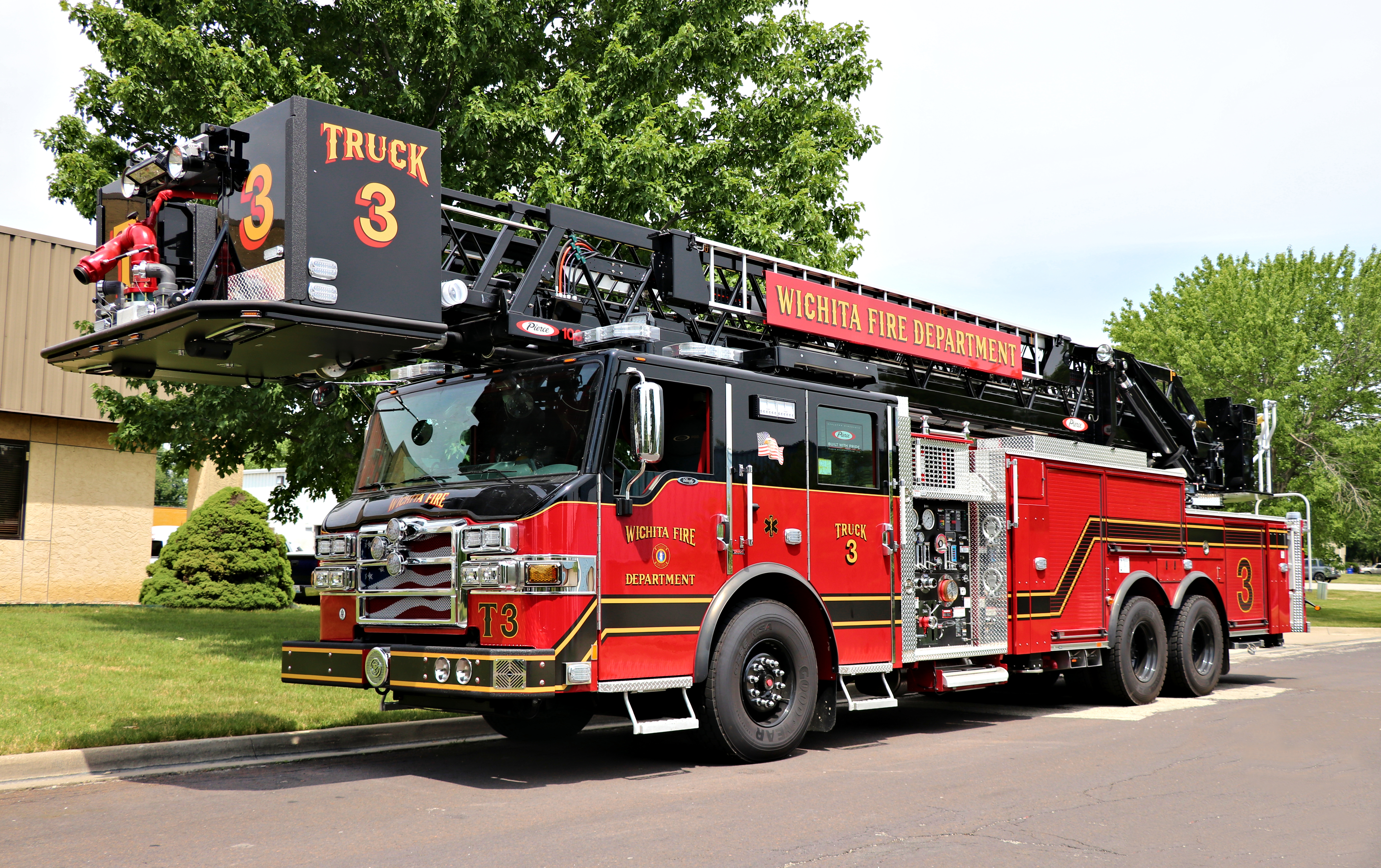 Wichita, Kansas Fire Department's NEW Truck 3 a 2018 Pierce Velocity 100' Aerial Platform Ladder Picture ID# 7880